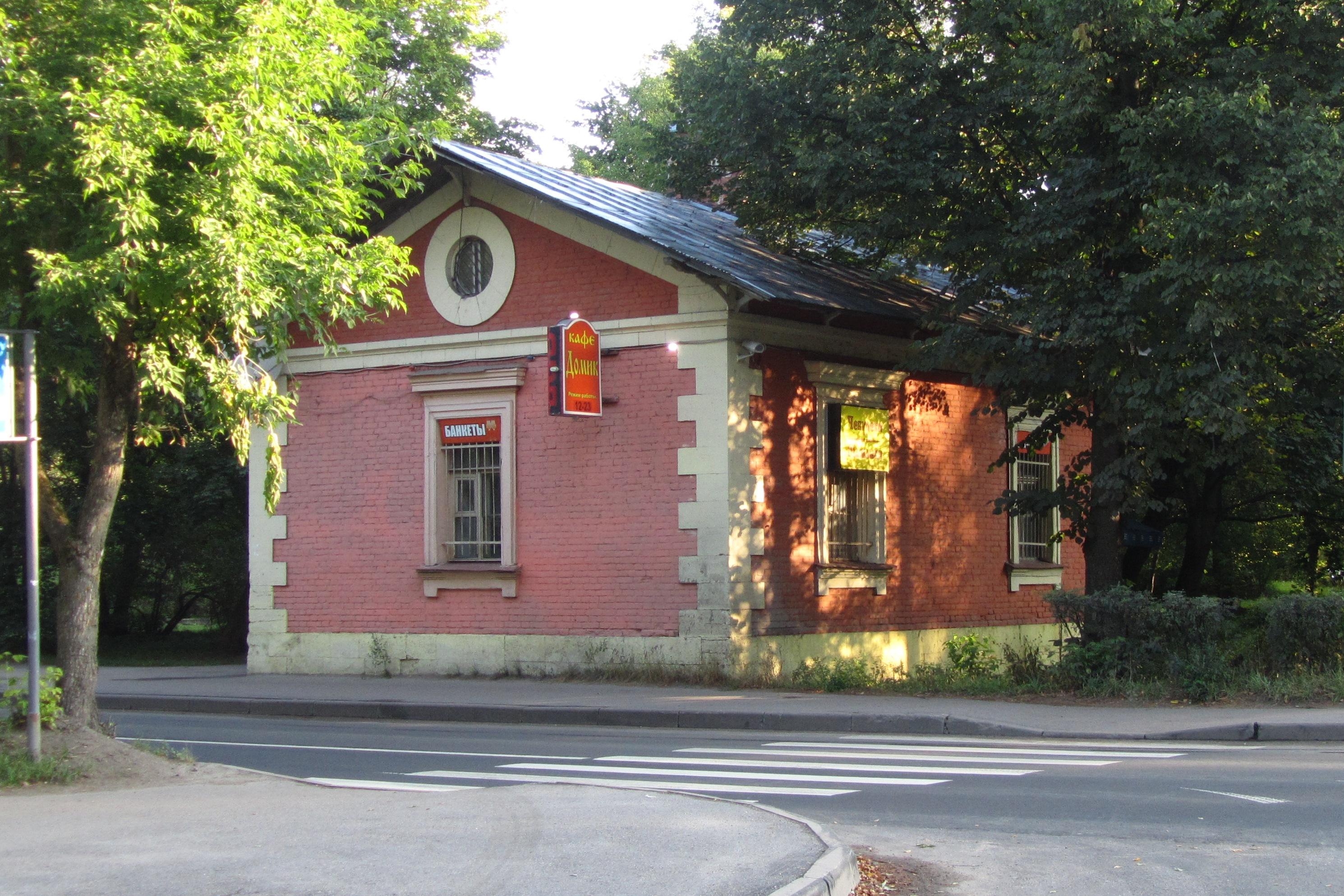 Guardhouse No 10, Gatchina, Russia